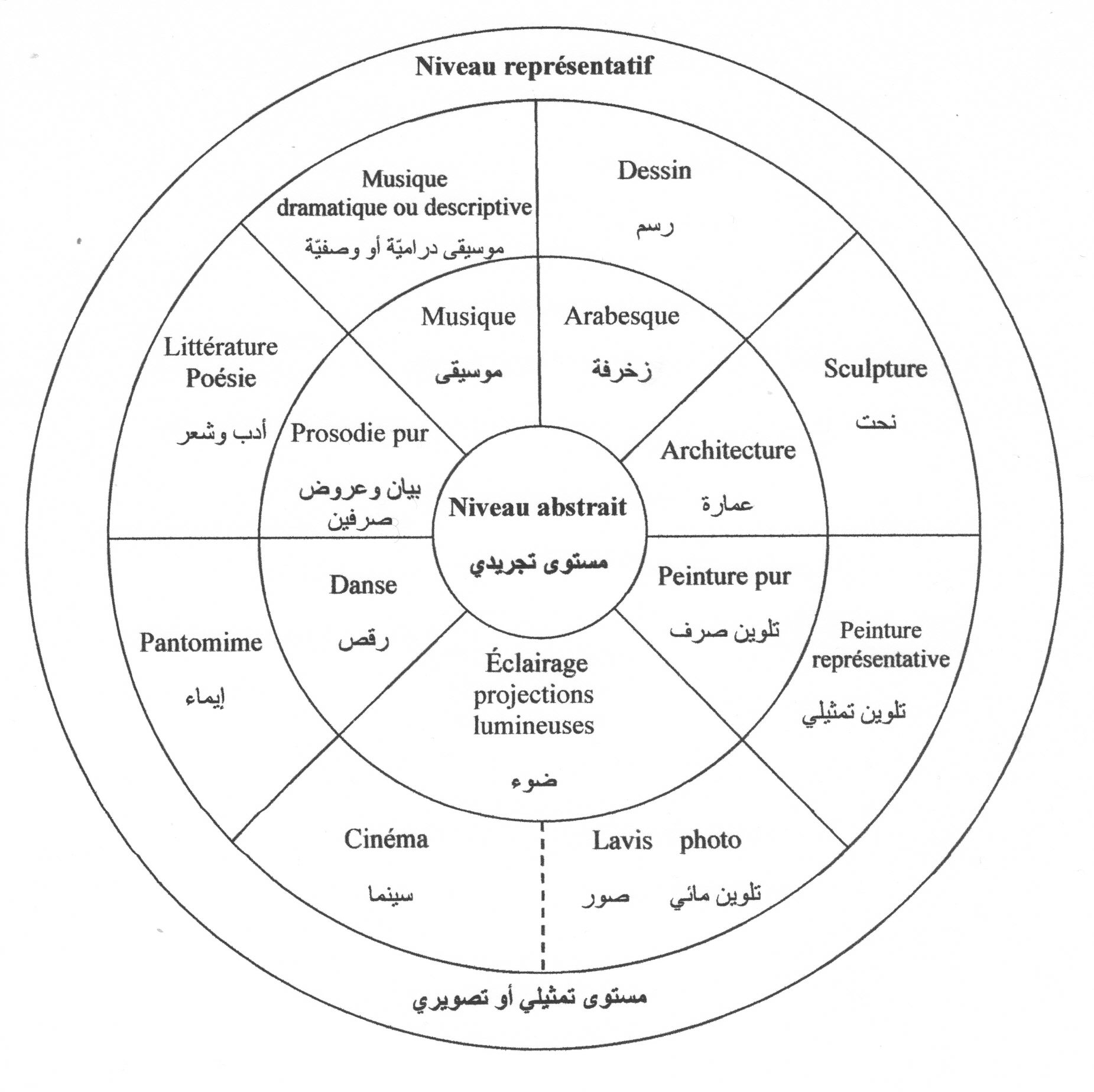 Categorys of Arts